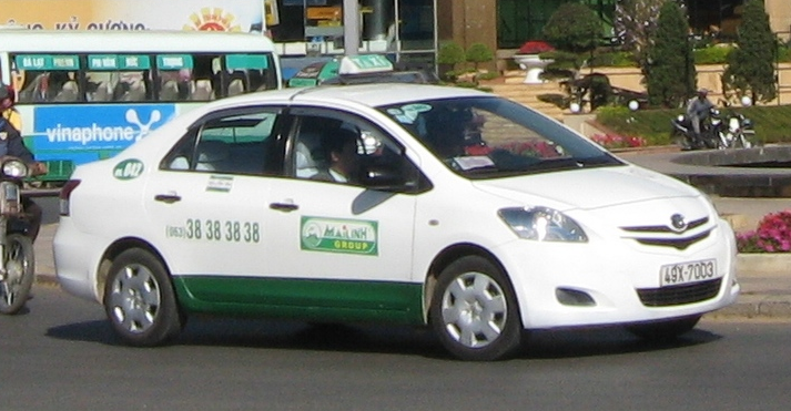 A Mai Linh Taxi in Da Lat, Vietnam.